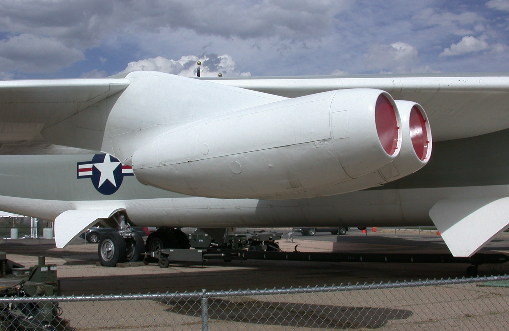 Boeing B-52B engine nacelle, Wings Over The Rockies Air Museum, Denver, Colorado